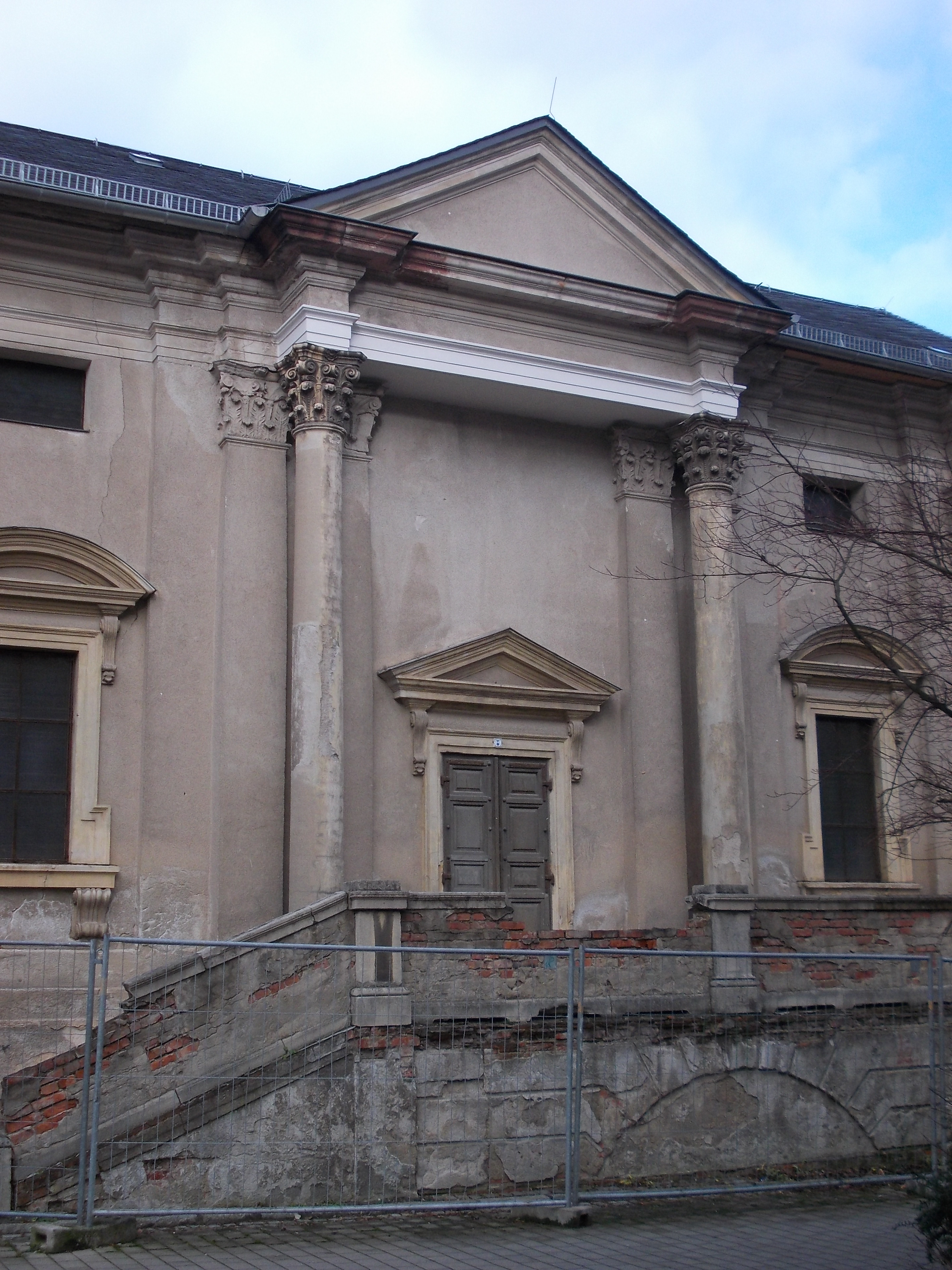 Cemetery church in Altenburg (Thuringia)